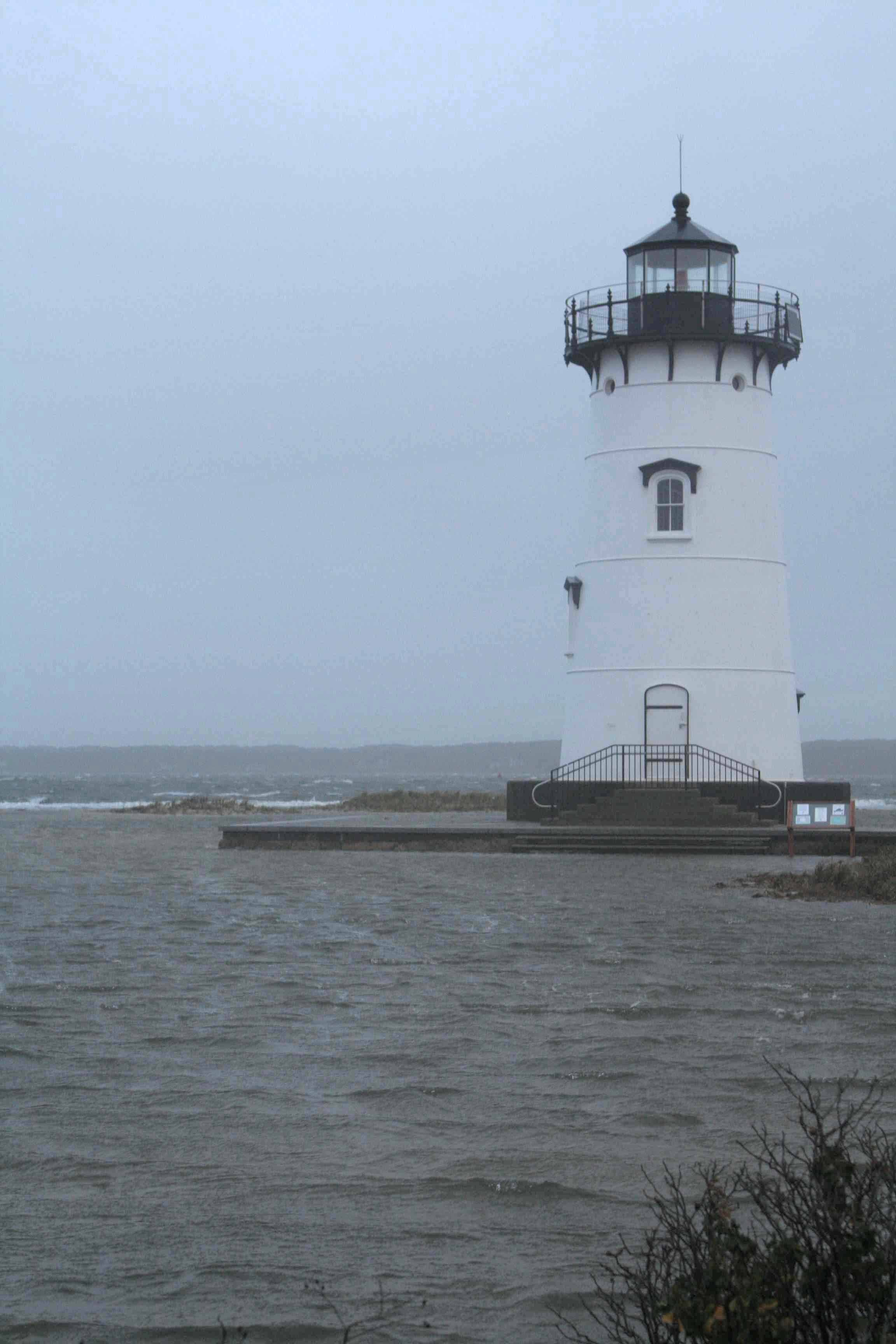 This photograph was taken at approximately 6:00 PM on 29 October 2012. This photo depicts the Edgartown Harbor Light being surrounded by storm surge flood waters generated during the Hurricane Sandy event. During "normal" conditions, the lighthouse is surrounded by acres of vegetated sandy beach. Flooding and damage to the public access causeway to the lighthouse, as well as flooding around the lighthouse precluded public access. Damage to the causeway and necessary repairs were in process at the time of the posting of this photograph on 4 November 2012. Hurricane Sandy struck the island of Martha's Vineyard with gale-force winds. The island suffered private and public property damage along many coastal areas. Hurricane Sandy's winds generated a storm surge on top of a full-moon tidal cycle. The storm surge caused significant coastal erosion and property damage to various coastal areas around the island. Hurricane Sandy was the eighteenth named storm and tenth hurricane of the 2012 Atlantic hurricane season. Hurricane Sandy was the largest Atlantic hurricane on record, with winds spanning a diameter of 1,100 miles (1,800 km).